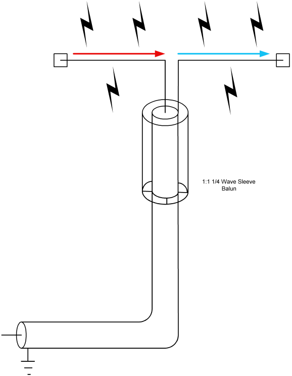 A dipole with a sleeve balun (also known as a bazooka balun). Created by Konrad Roeder 2005. Released into the Public Domain.